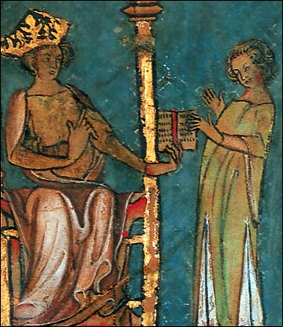 King Magnus VI of Norway(1238-1280) establishes the "Landslov" National Law in Norway around 1275 DC.